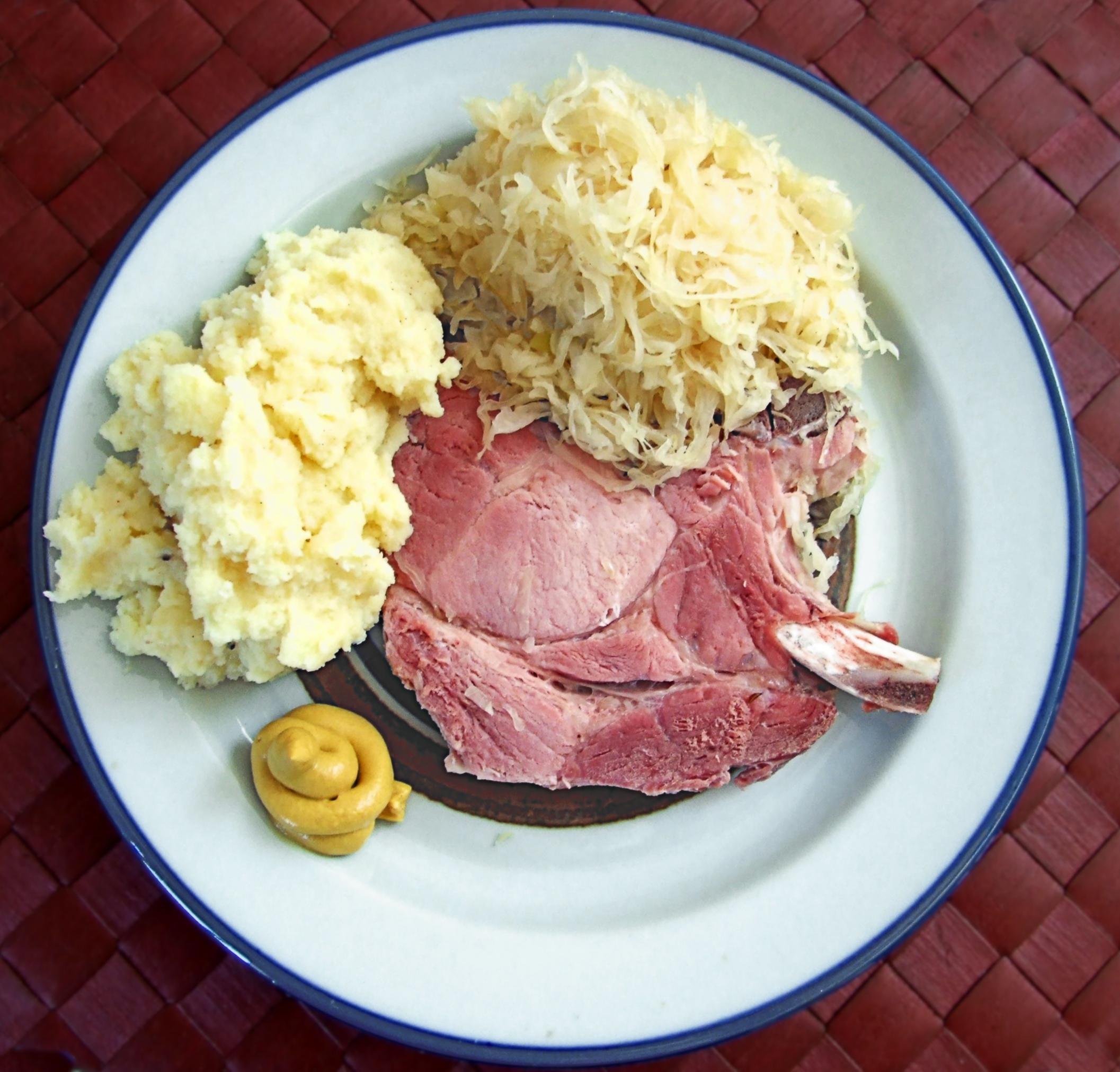 Frankfurter Rippchen mit Kraut as menue in Frankfurt am Main (menue: cured pork cutlet with sauerkraut, mashed potato and mustard)